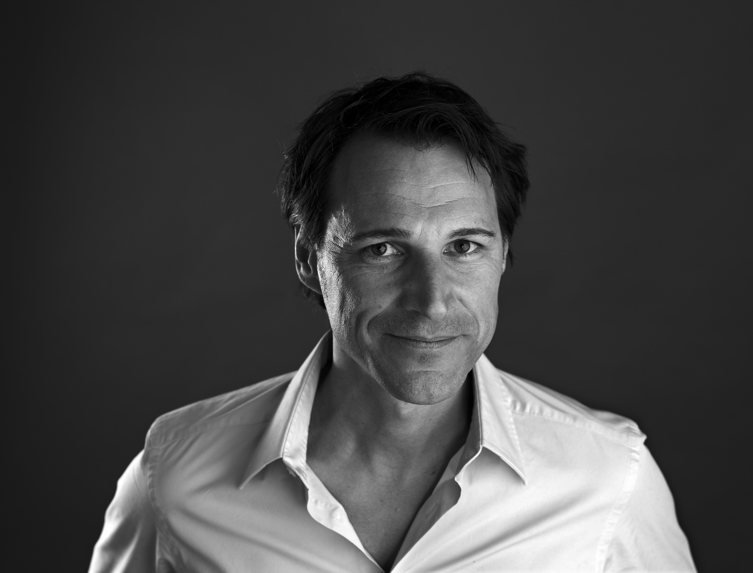 Rolf Dobelli, writer